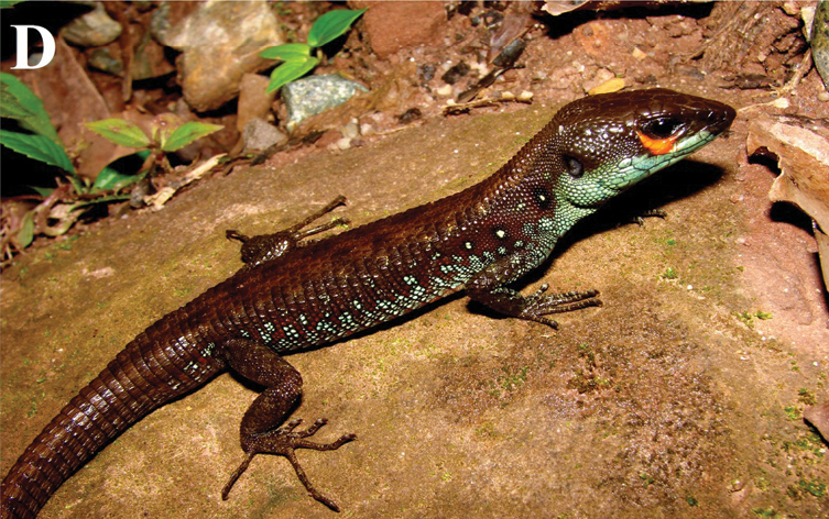 Potamites strangulatus trachodus from Cordillera Escalera, San Martin, northern Peru (CORBIDI 06368). Photo by Pablo J. Venegas.